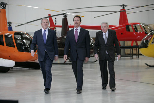 President George W. Bush tours the Robinson Helicopter Company Wednesday, Jan. 30, 2008 in Torrance, Calif., joined by California Governor Arnold Schwarzenegger and CEO Frank Robinson. Following the tour President Bush addressed employees and members of the media on the nation’s economy and the importance of free trade agreements. White House photo by Eric Draper